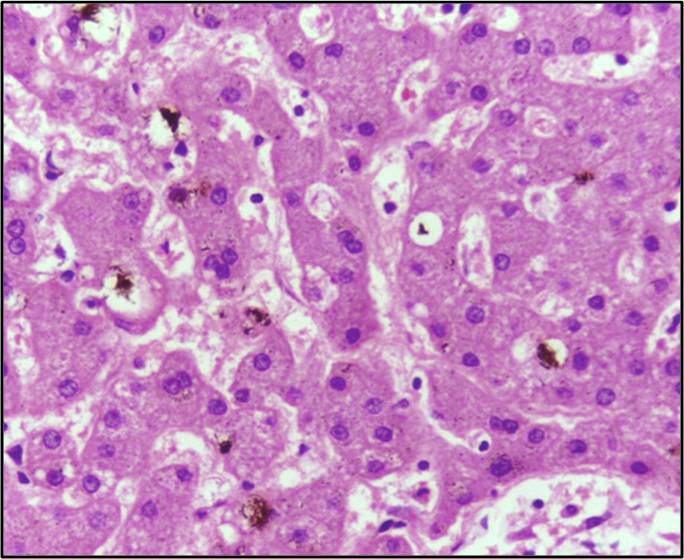 Liver showing canalicular accumulation of bilirubin pigment. [H&E stain, 40X]